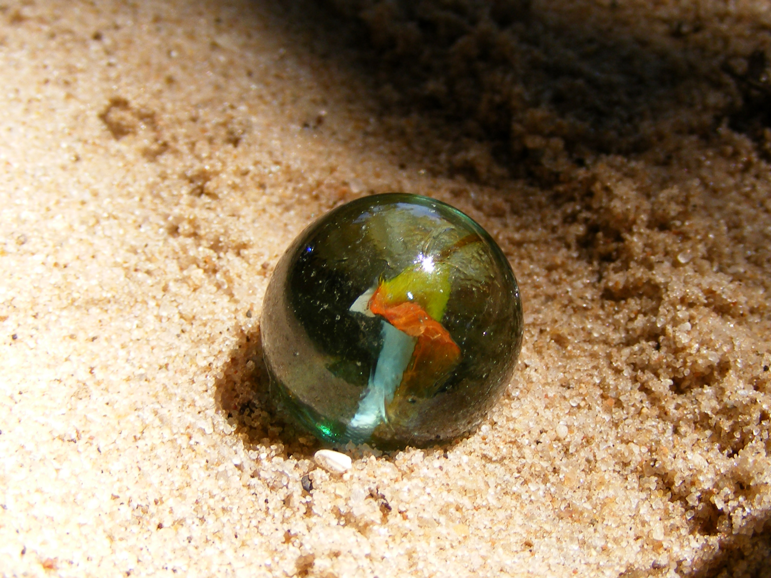 A Super Micro image of a toy marble.